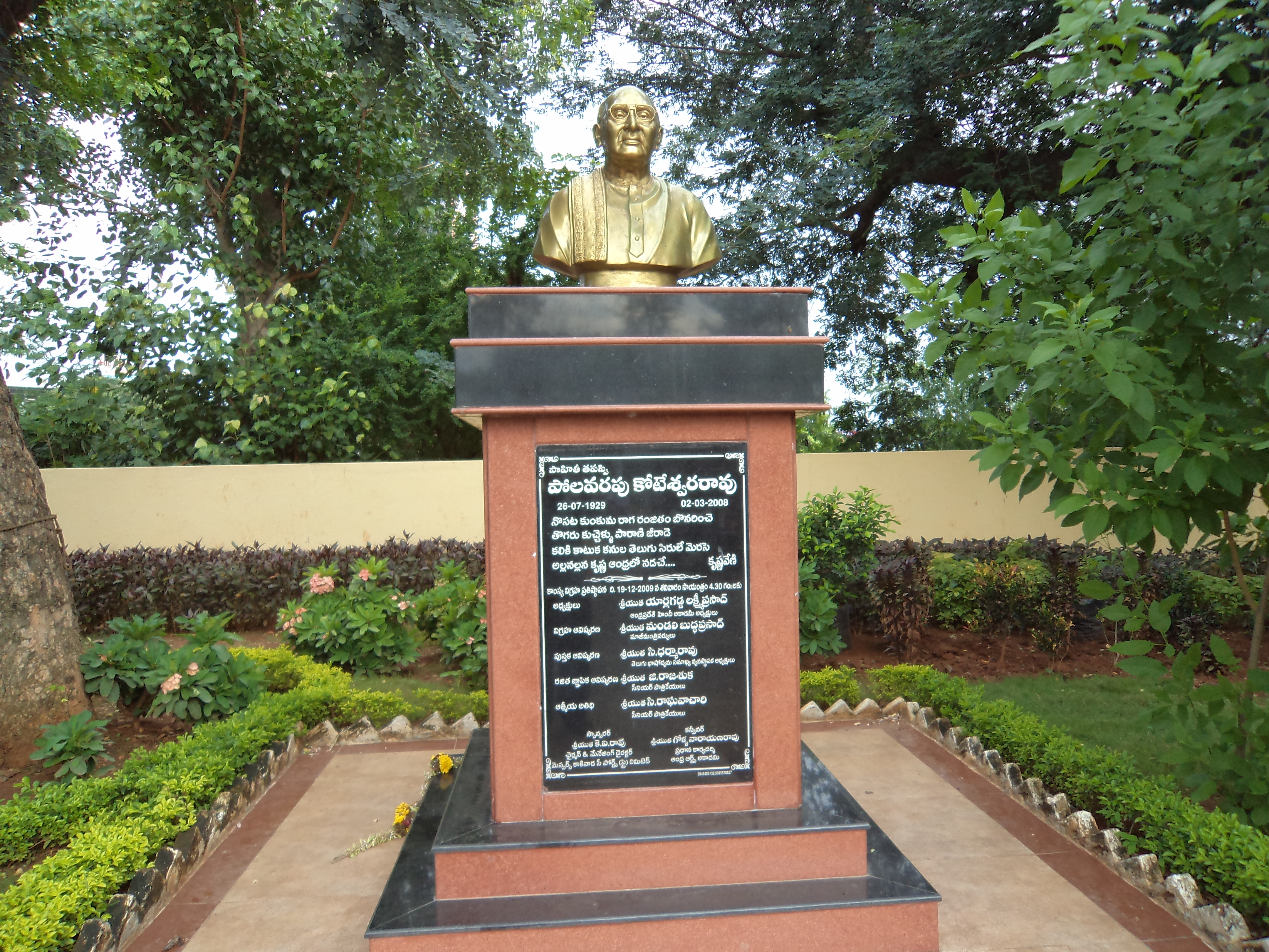 Polavarapu Venkateswara Rao, Tummalapalli Kshetrayya Kalakshetram Vijayawada